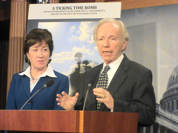 A Ticking Time Bomb Press Conference